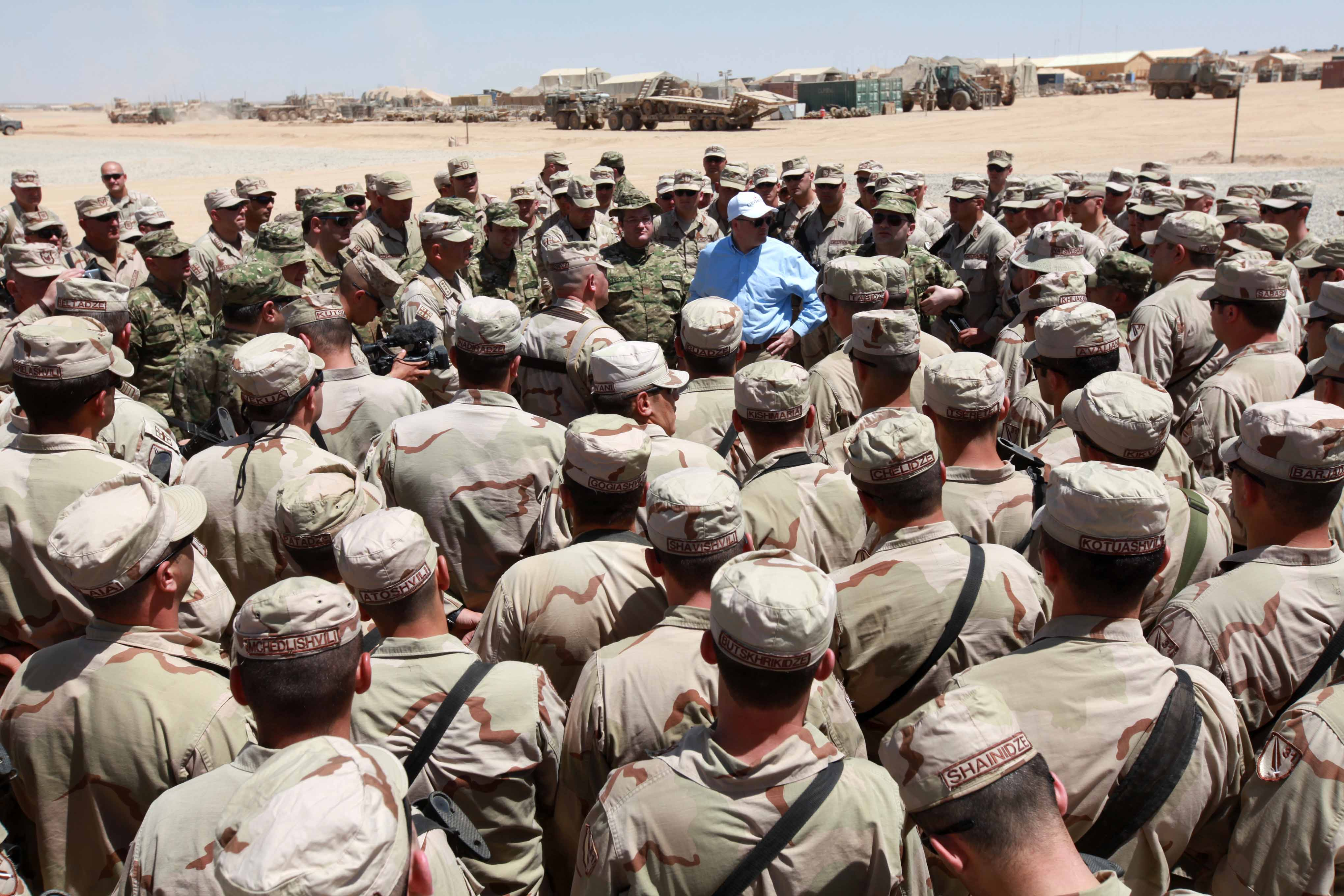 Georgian Minister of Defense Bacho Akhalaia gathers with the 31st Georgian Battalion aboard Camp Delaram II, during his visit to the camp, June 14. Brigadier Gen. Joseph Osterman, 1st Marine Division (FWD) Commanding General, was also in attendance. While the minister and his entourage were aboard the camp, they received a brief from both the Georgian staff as well as Col. Paul Kennedy, Regimental Combat Team 2 commanding officer. The brief touched on topics concerning the logistics of the Georgian unit as well plans for future implementation of the Georgian battalion throughout RCT-2’s battle space. For the first time, a Georgian battalion is working alongside a Marine regimental combat team. Through the combined efforts of two NATO forces working for a common goal, the Georgians, along with RCT-2, plan to leave a positive impact in the Helmand province.